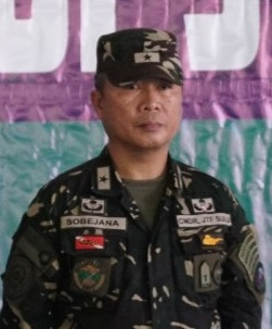 BGen Cirilito Sobejana AFP, Medal of Valor recipient